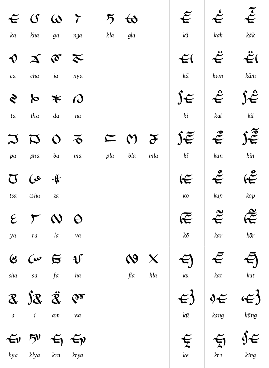 The letters of the Lepcha alphabet